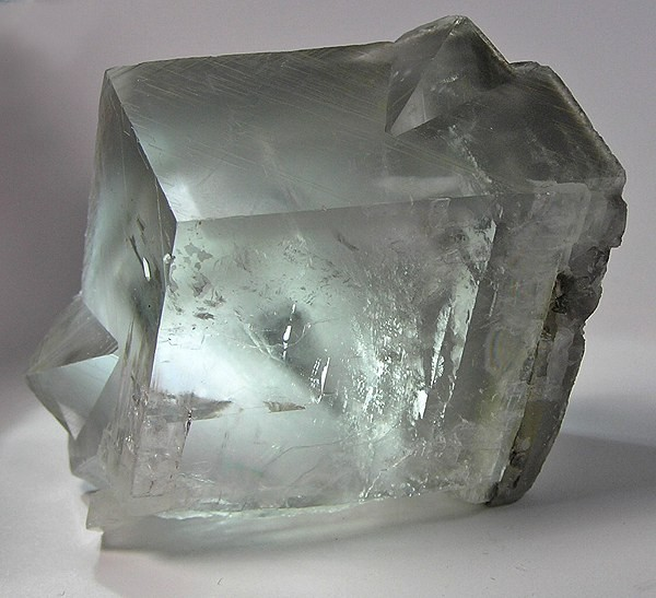 Dolomite Locality: Azcárate Quarry, Eugui, Esteribar, Navarre, Spain (Locality at ) Size: 4.5 x 3.9 x 2.6 cm. From the collection of Gary Hansen who retired in 1984 from mineral dealing, a perfect rhomb of dolomite from Spain. Dolomite is so often seen as a boring "accessory" mineral. These Spanish ones are obviously quite exceptional and aesthetic. This is an OLD one, of just superb quality.